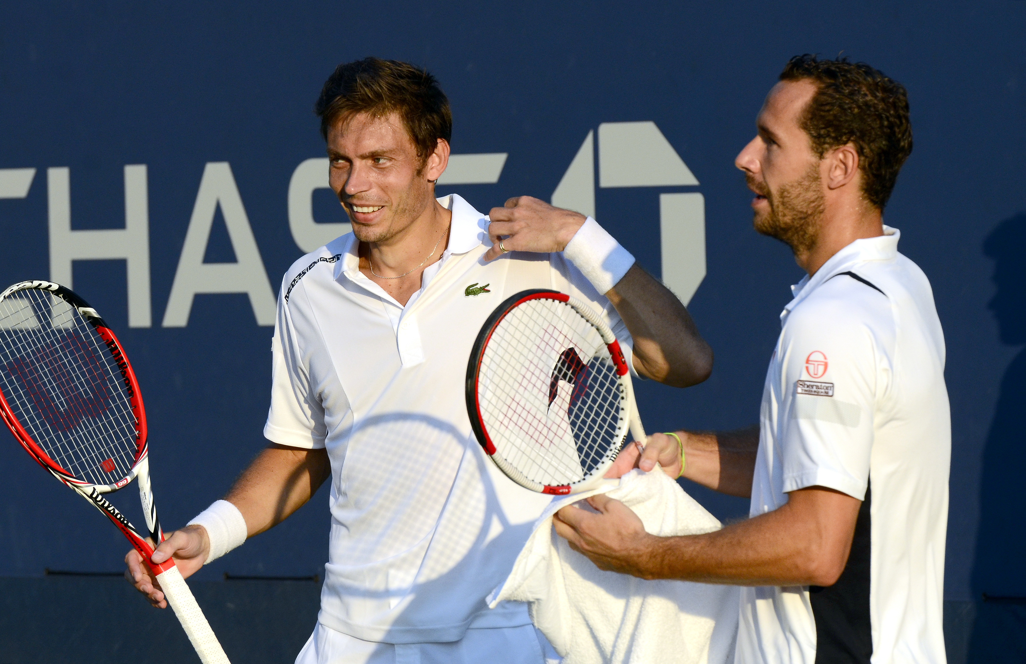 August 26, 2014 Queens, NY Michael Llodra and Nicolas Mahut (FRA) def. Peter Kobelt and Hunter Reese (USA)